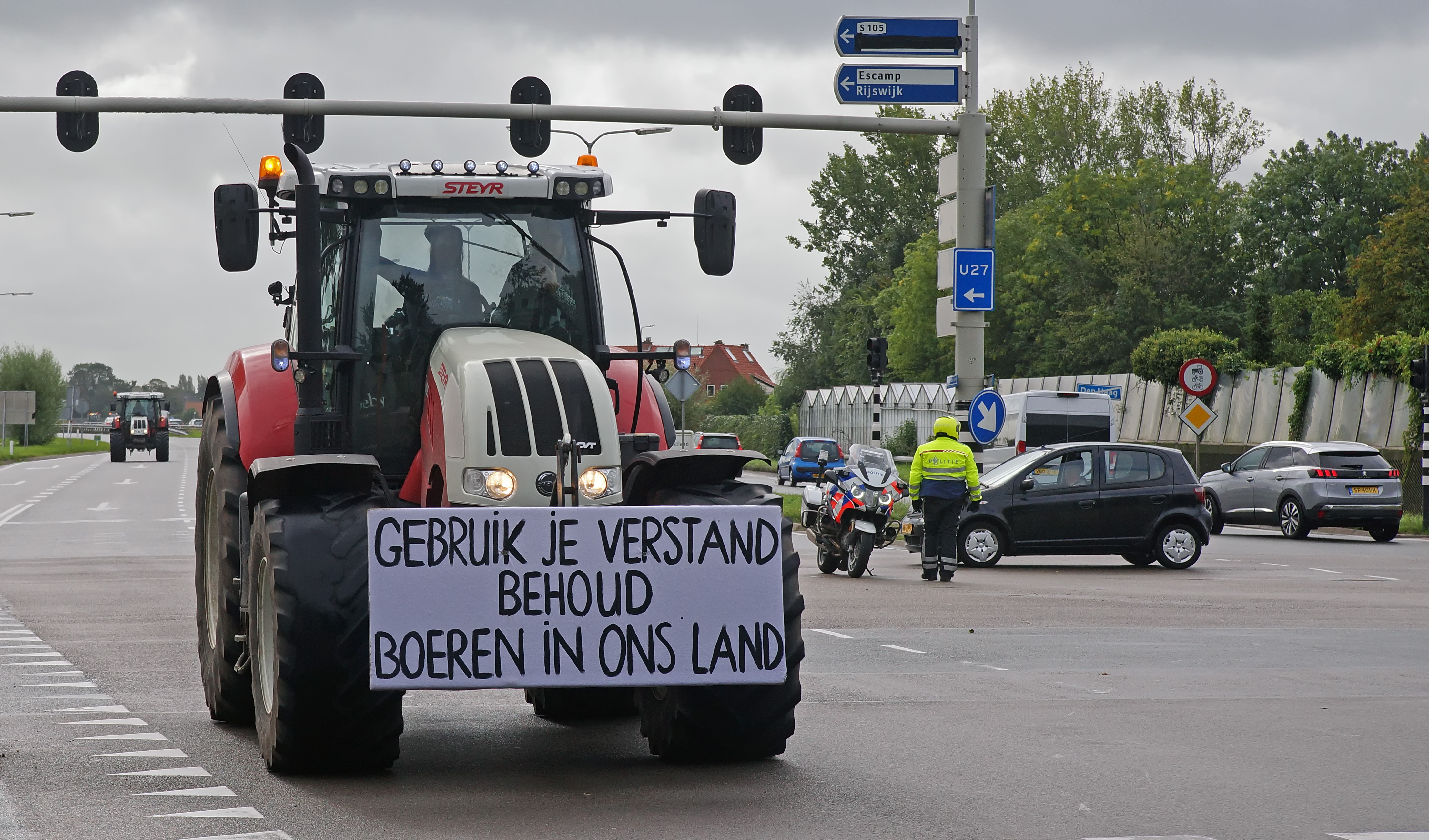 Farmer's protest in The Hague 1 October 2019. The sign reads in